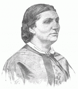 This edited image of Mandana Tileston Fairbank (1826-1876), first wife of abolitionist Calvin Fairbank (1816-1898) originally appeared in her husband's autobiography, Rev. Calvin Fairbank during slavery times: how he "fought the good fight" to prepare "the way" / edited from his manuscript, published 1890 by R.R. McCabe, Chicago, and reproduced in digital facsimile by Kentuckiana Digital Library. KDL permits the use of its digital images derived from the text for not-for-profit, research, instruction or private study only. I believe that use of the image in a Wikipedia article fits this guideline.